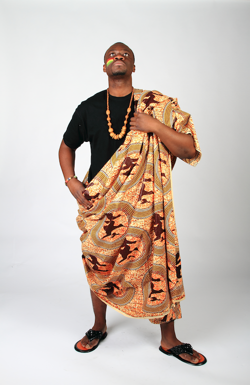 The Cloth Is the Symbol of traditional Ghanaian wear